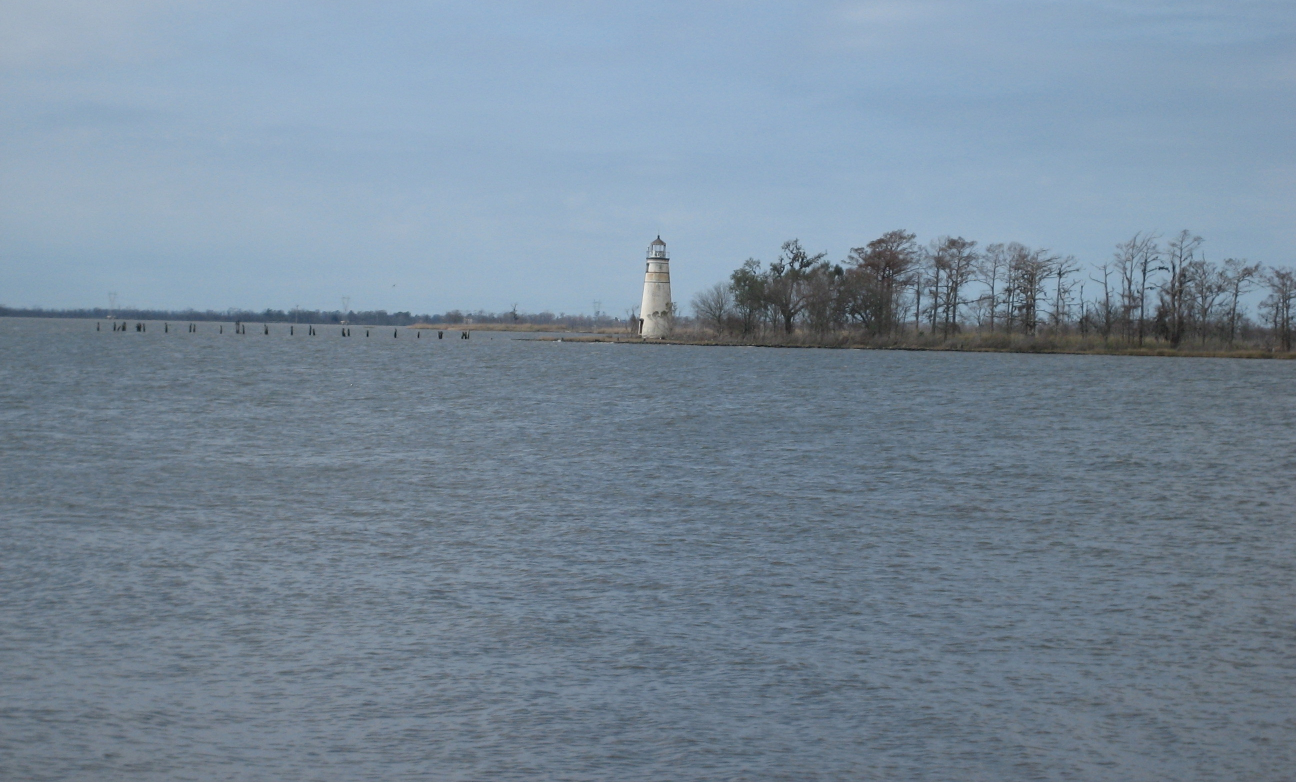 Madisonville Lighthouse on shores of Lake Pontchartrain near the mouth of the Tchefuncte River. View from closest point on mainland. Land access to the early 19th century lighthouse was cut off by erosion from Hurricane Betsy in 1965.